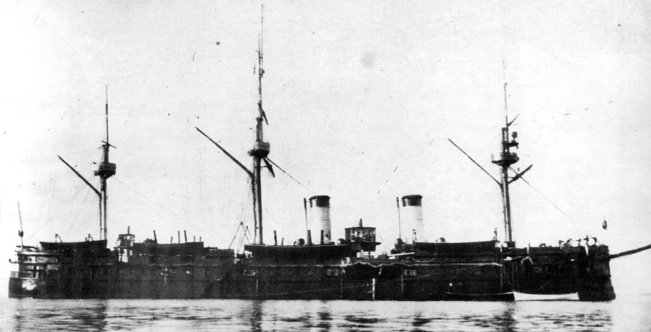 The Imperial Russian armoured frigate Dmitriy Donskoy.